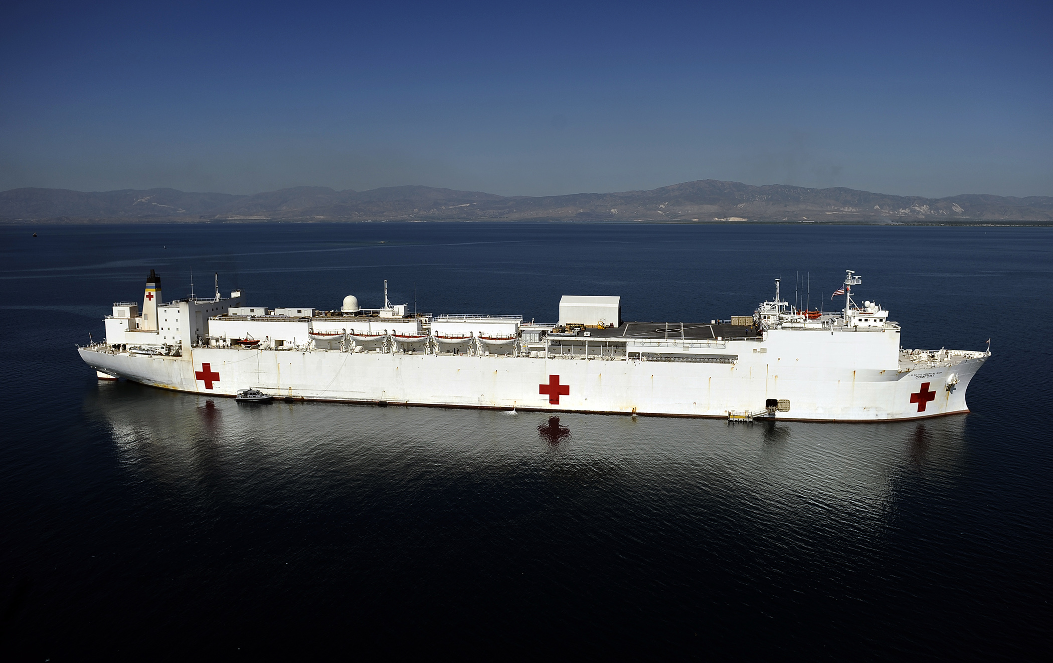 The Military Sealift Command hospital ship USNS Comfort sits off the coast of Port-au-Prince, Haiti, Jan. 28, 2010. The ship and its crew participated in Operation Unified Response in the wake of the magnitude 7 earthquake that hit the area, Jan. 12, 2010.